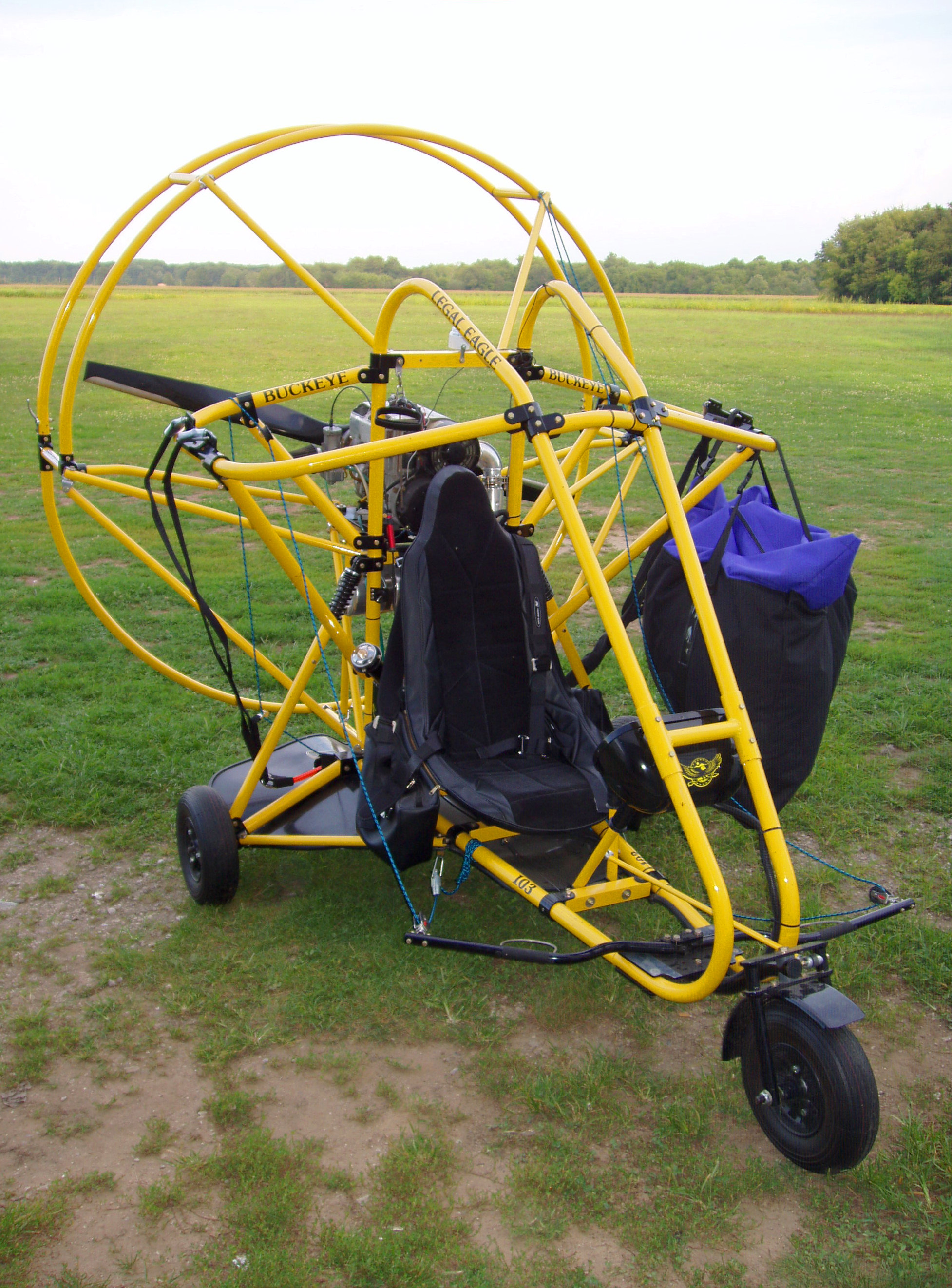 Single-seat Buckeye Legal Eagle powered parachute ultralight aircraft with parachute wing stowed